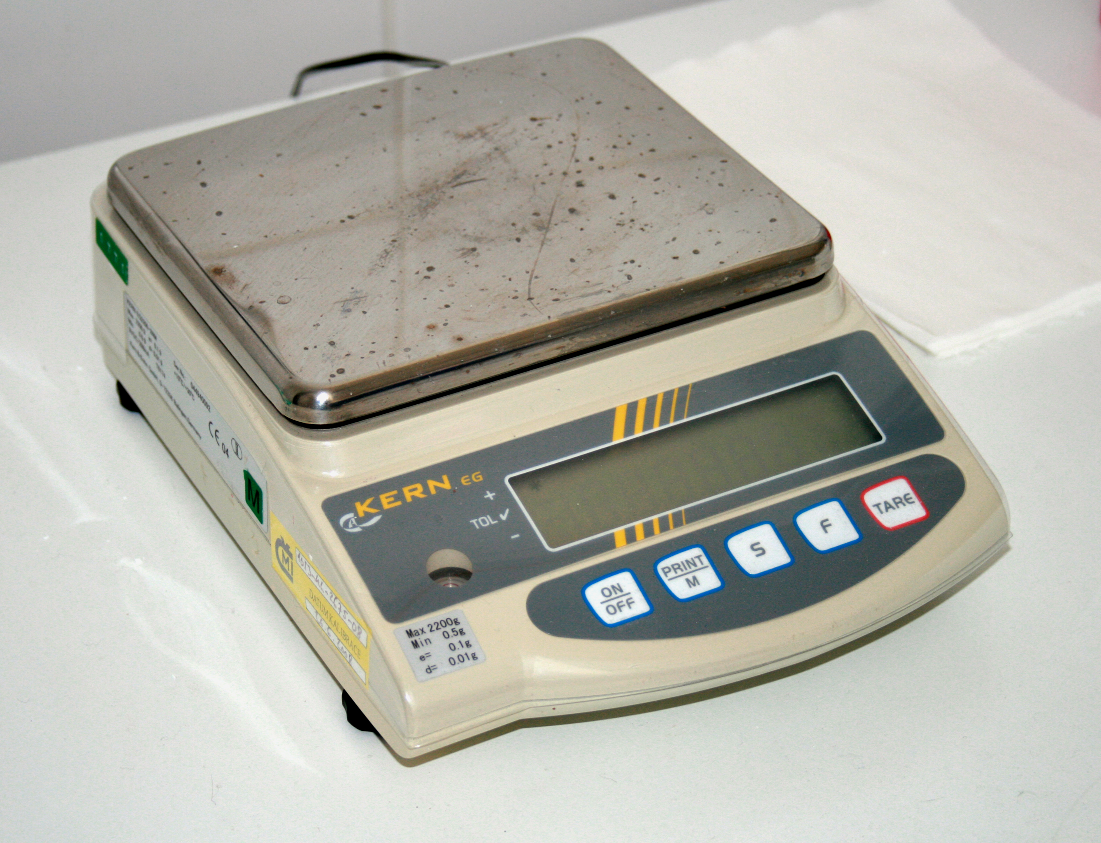 Analytical balance type EG from production company Kern